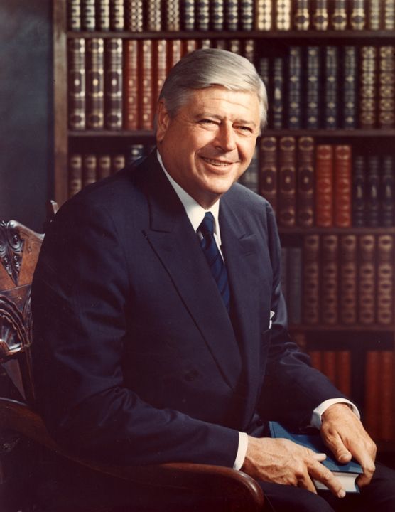 Rogers Morton, former Secretary of the Interior and Secretary of Commerce of the United States.